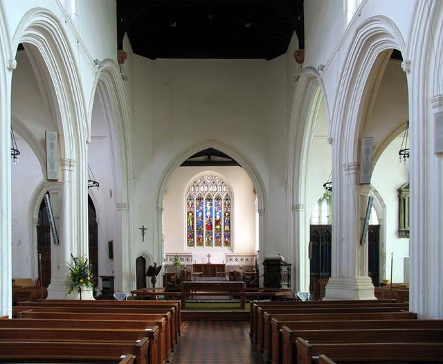 St Mary, Ware, Herts - East end